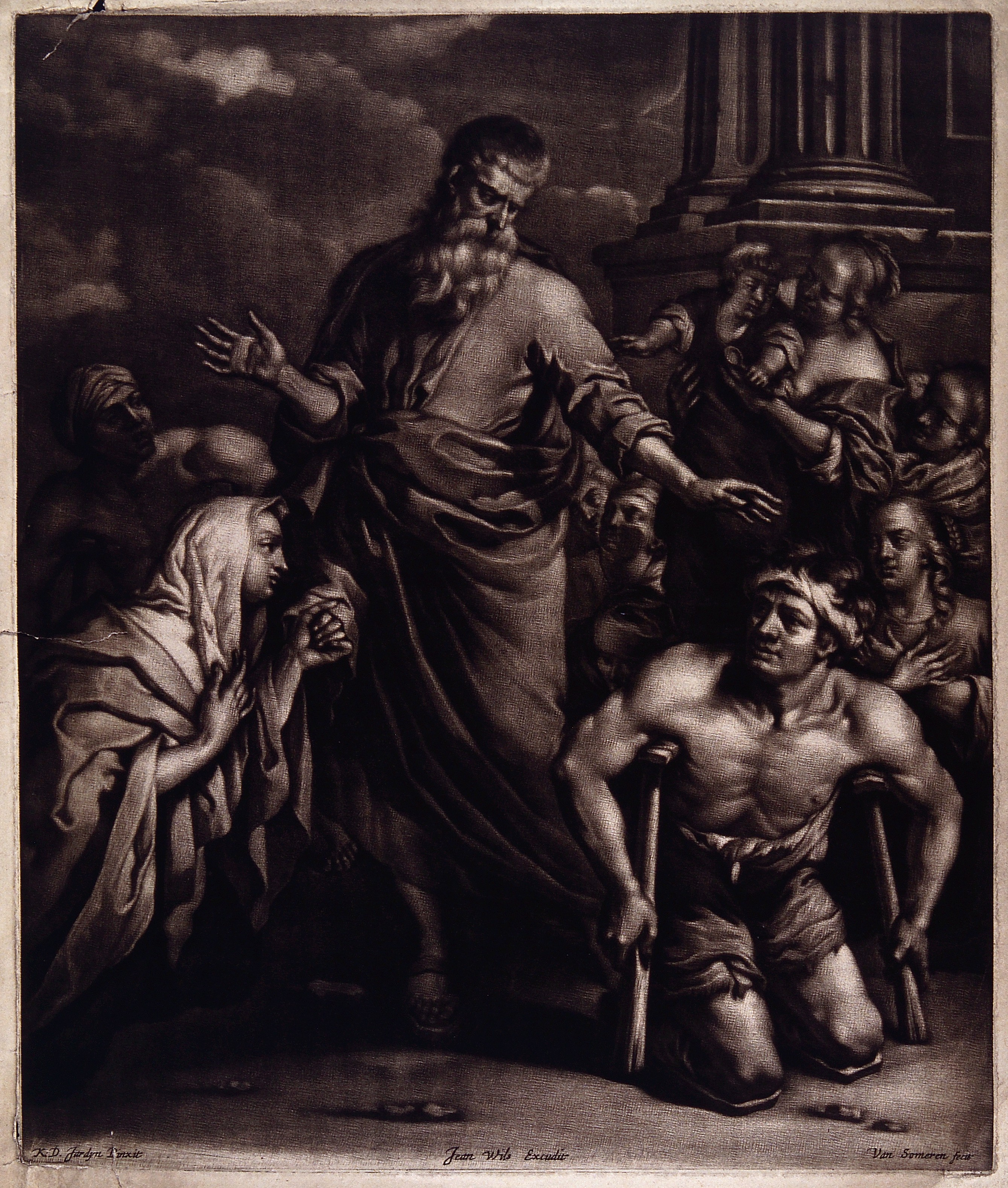 Peter heals the lame man outside the temple. Mezzotint by P. van Somer after K. Dujardin. Iconographic Collections Keywords: Peter; Karel Dujardin; Paul van Somer